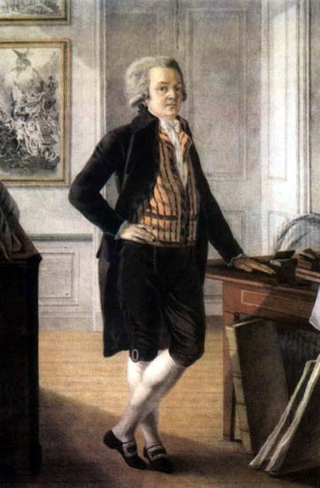 Gavriil Skorodumov Selfportrait XVIII century